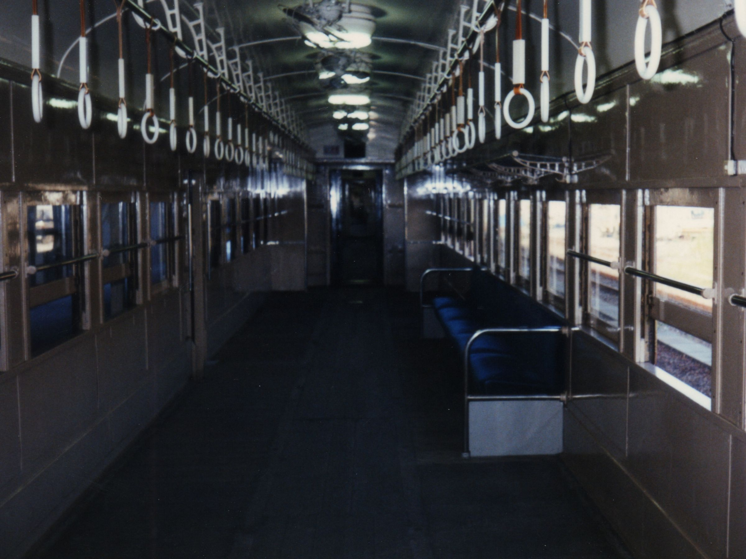 West Japan Railway Company , Passenger car type Oha64 at Hyogo Sta.